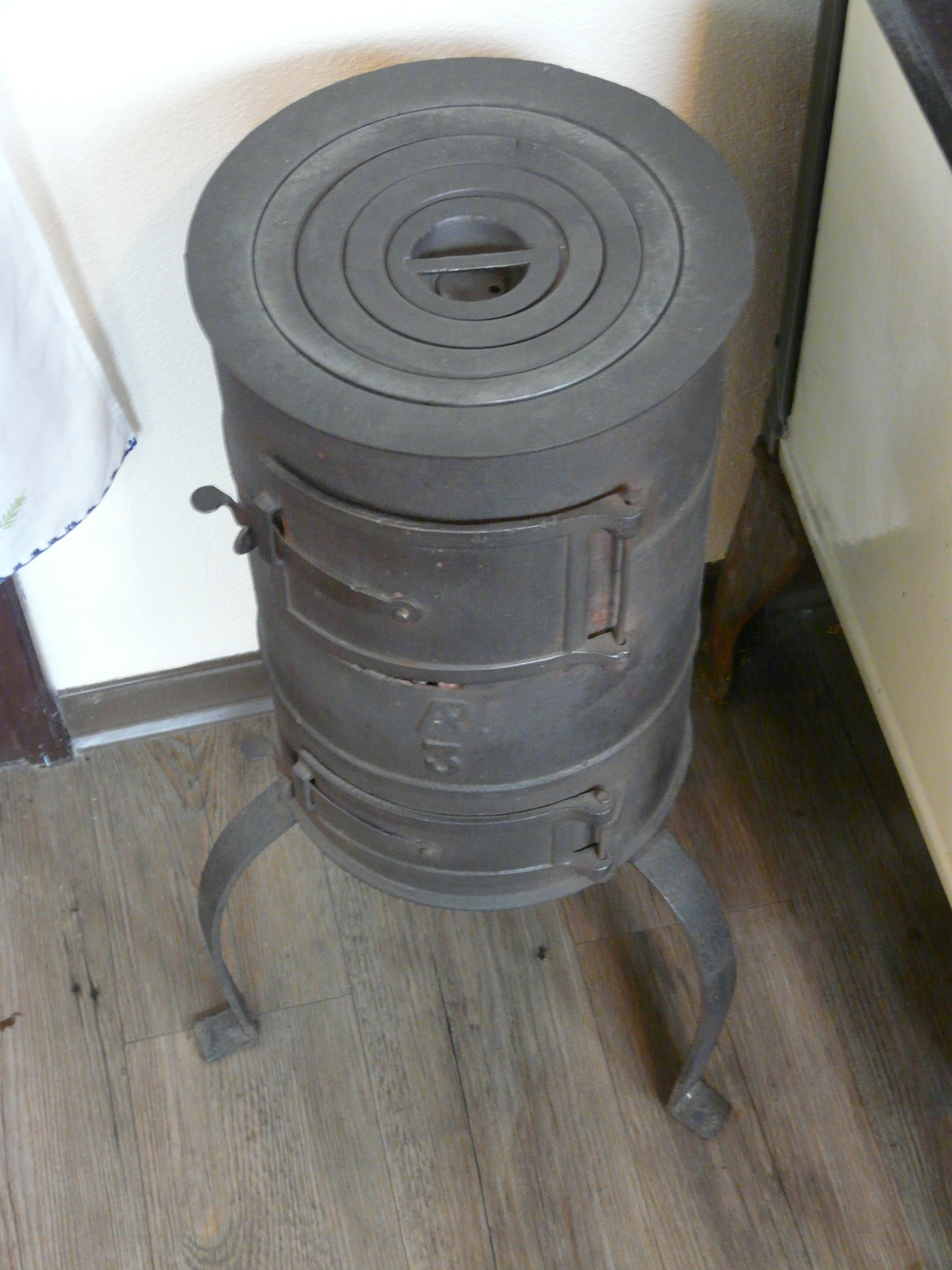 Katowice, Nikiszowiec. Muzeum Historii Katowic. From the collections: "U nos w doma na Nikiszu" (depictions of average households, pics 18-49) and "Woda i mydło najlepsze bielidło" (depictions of communal laundry, pics 5-17).